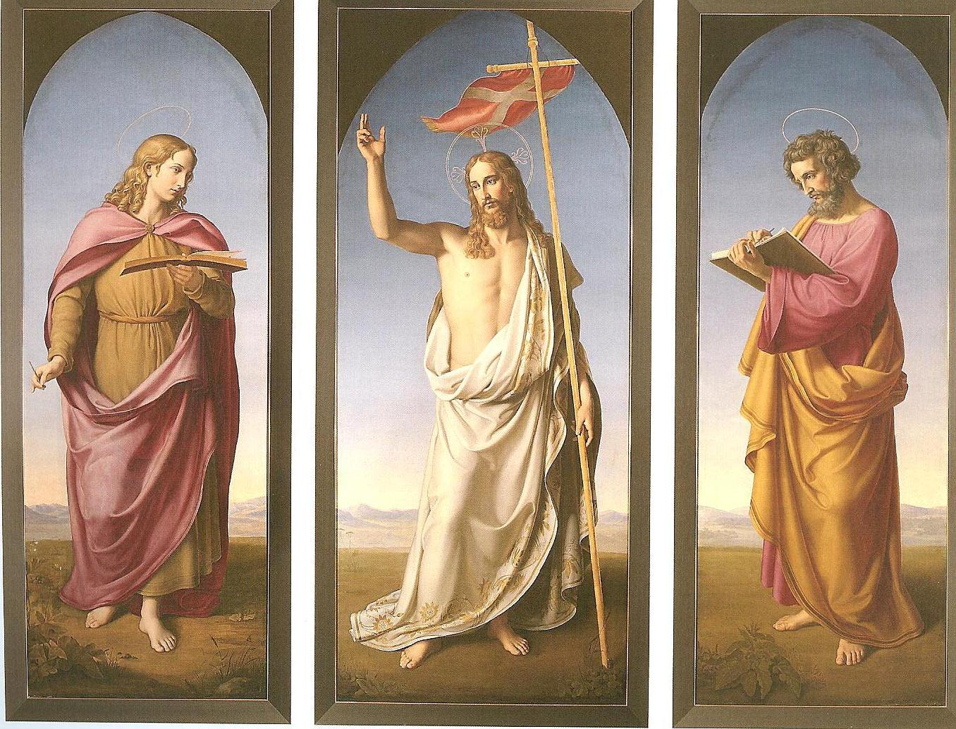 Altar paintings by Friedrich Wilhelm von Schadow for the chapel at Schulpforta, 1824